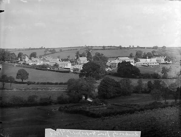 1 negative : glass, dry plate, b&w ; 16.5 x 21.5 cm.